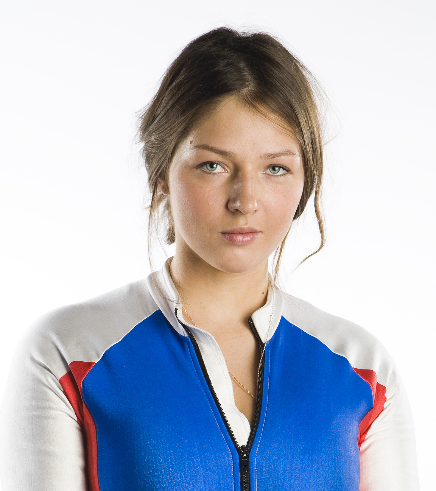 Zavarzina Alena, russian snowboarder